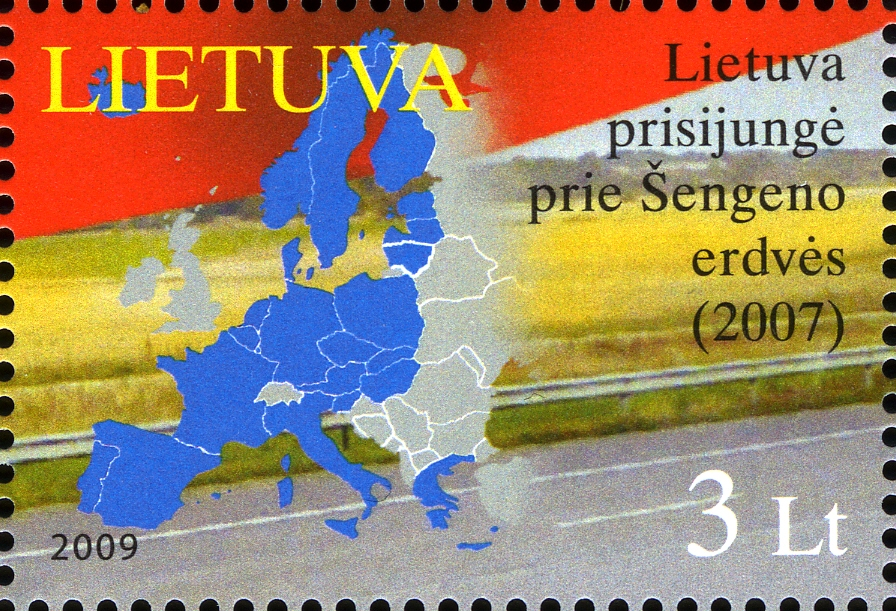 Stamps of Lithuania, 2009.